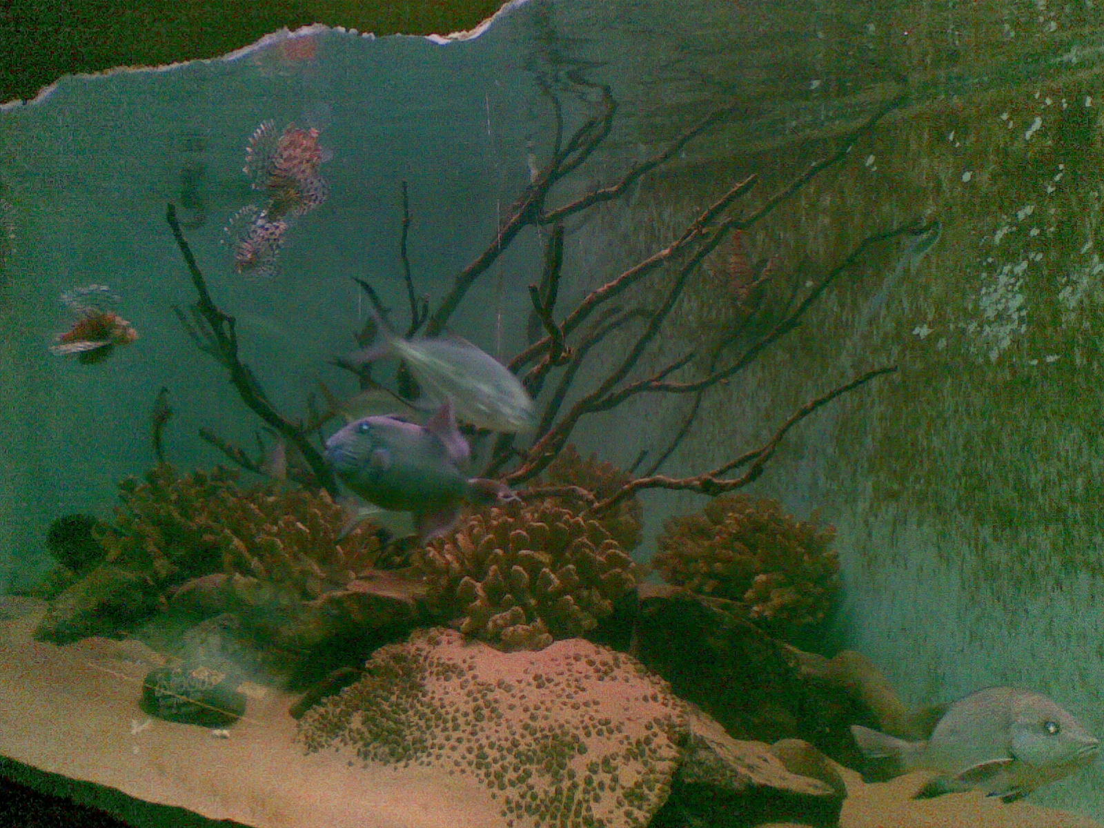 Lion fish in dehiwala aquarium